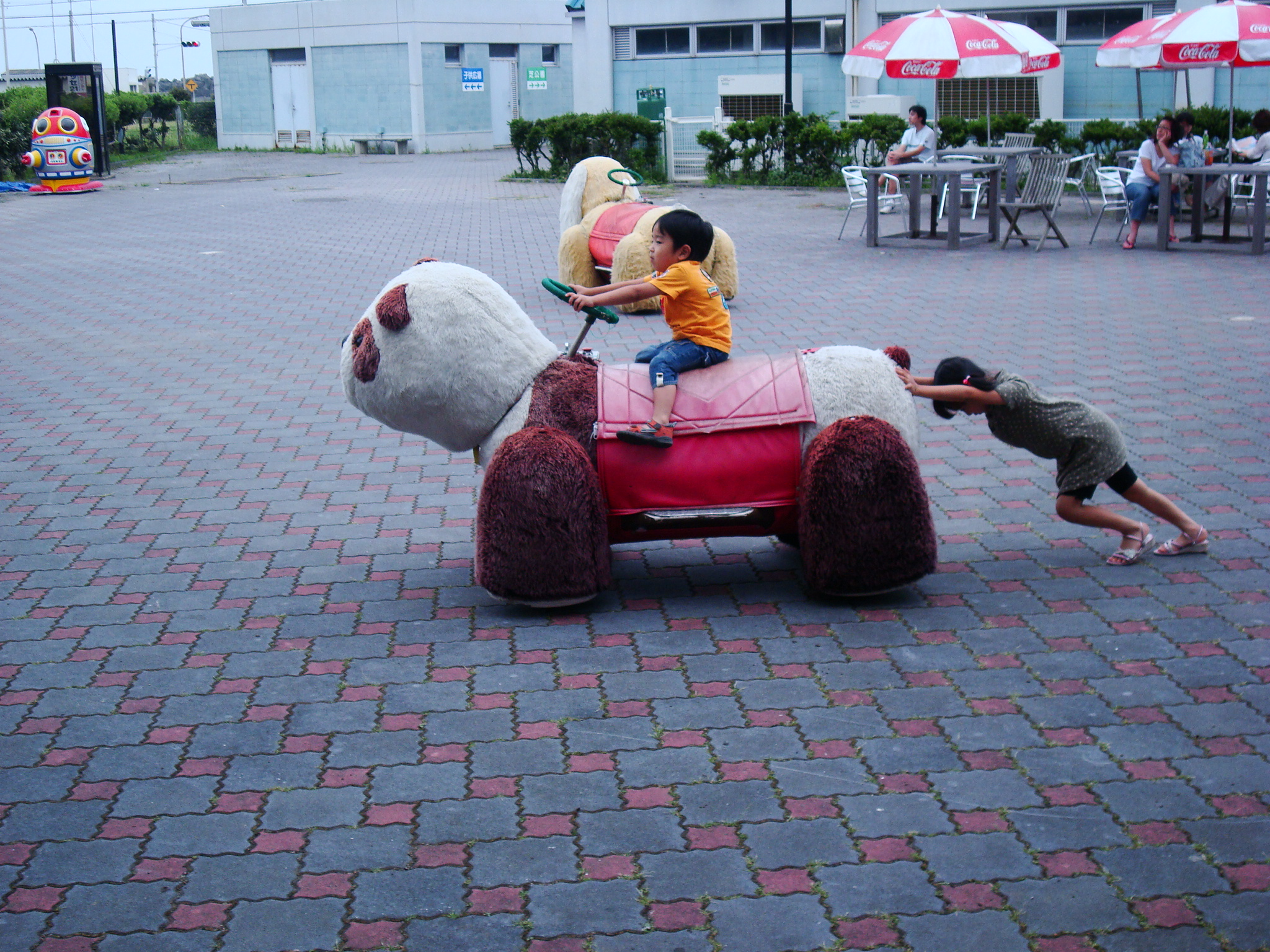 Children riding a panda car in Choshi, Japan.